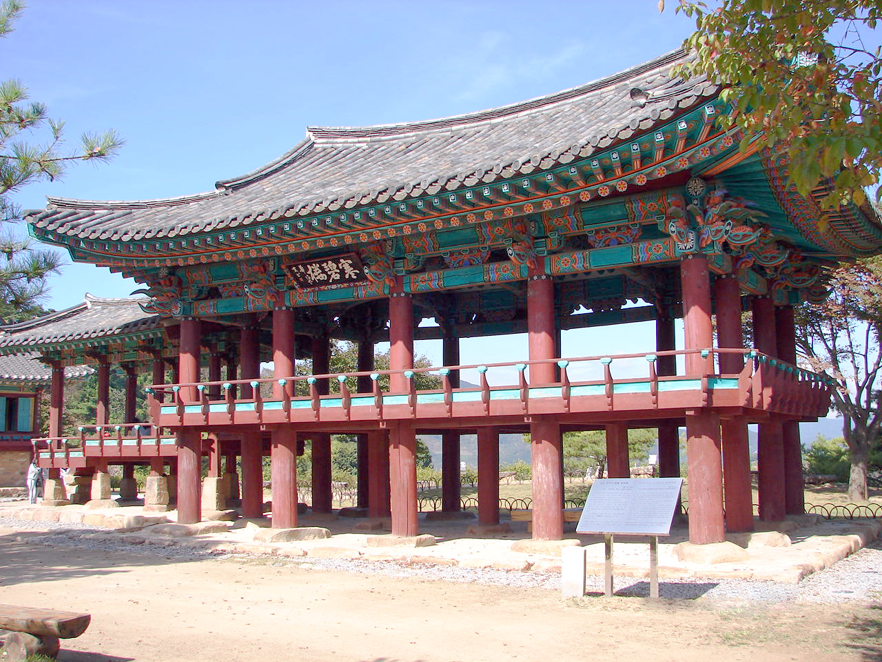 Hanbyeong-nu (pavilion) was built in 1317 as an auxiliary structure of a magistrate's office after this area of Cheongpung was elevated from the state of township to county. The pavilion has four bays on the front and three on the side elevations, with a double-story, half-hipped roof. There is a corridor leading to the hall on the west. The main pavilion was built in a double-wing-like bracket structure with double rafters featuring tilted eaves, while the corridor was in a single-wing-like bracket style with single rafters. Cheongpung Cultural Properties Complex - located by the Chungjuho Lake. This complex is a reconstructtion of Cheongpung, a village that became submerged after the construction of Chungju Dam. It took three years to relocate the buildings and structures in the current site at a cost of of over 1.6 trillion won. Designated Treasure #528.